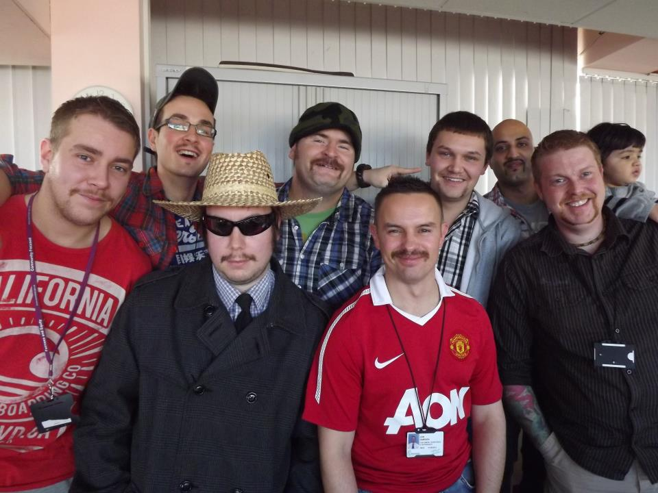 A group of men displaying the moustaches they grew for Movember